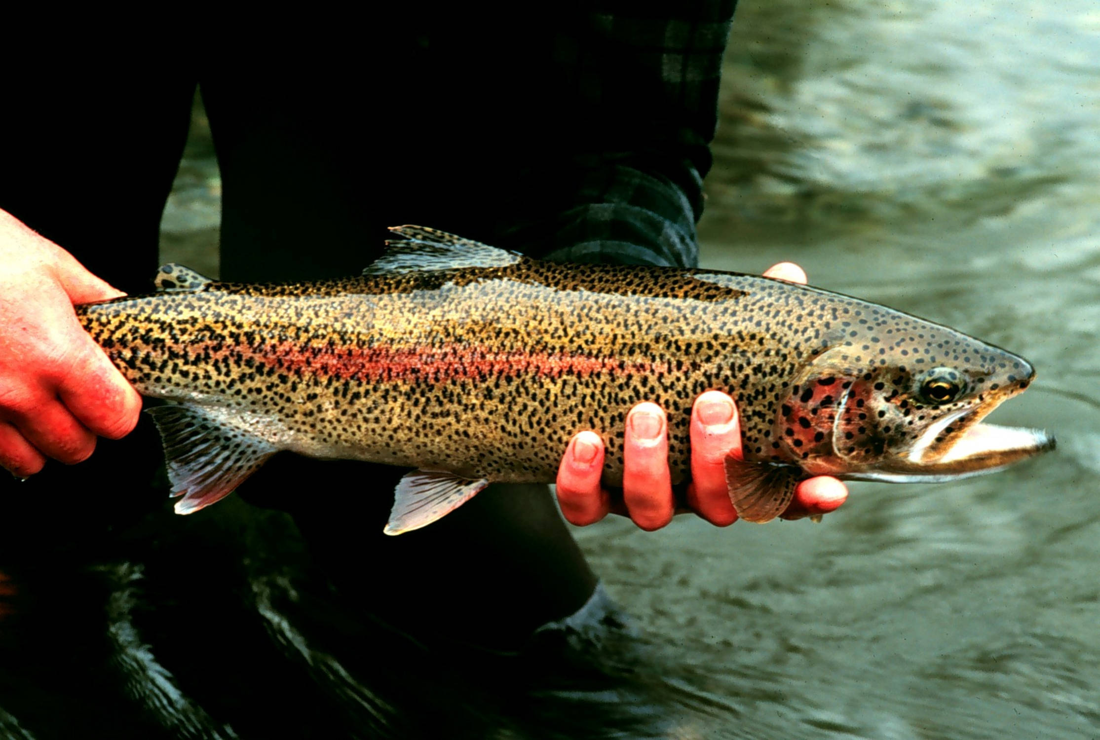 Photo credit: USFWS In the context of climate change, ecological restoration will not necessarily be about attempting to restore specific species or combinations of species, but rather about restoring the conditions that favor healthy, diverse, and productive communities of species